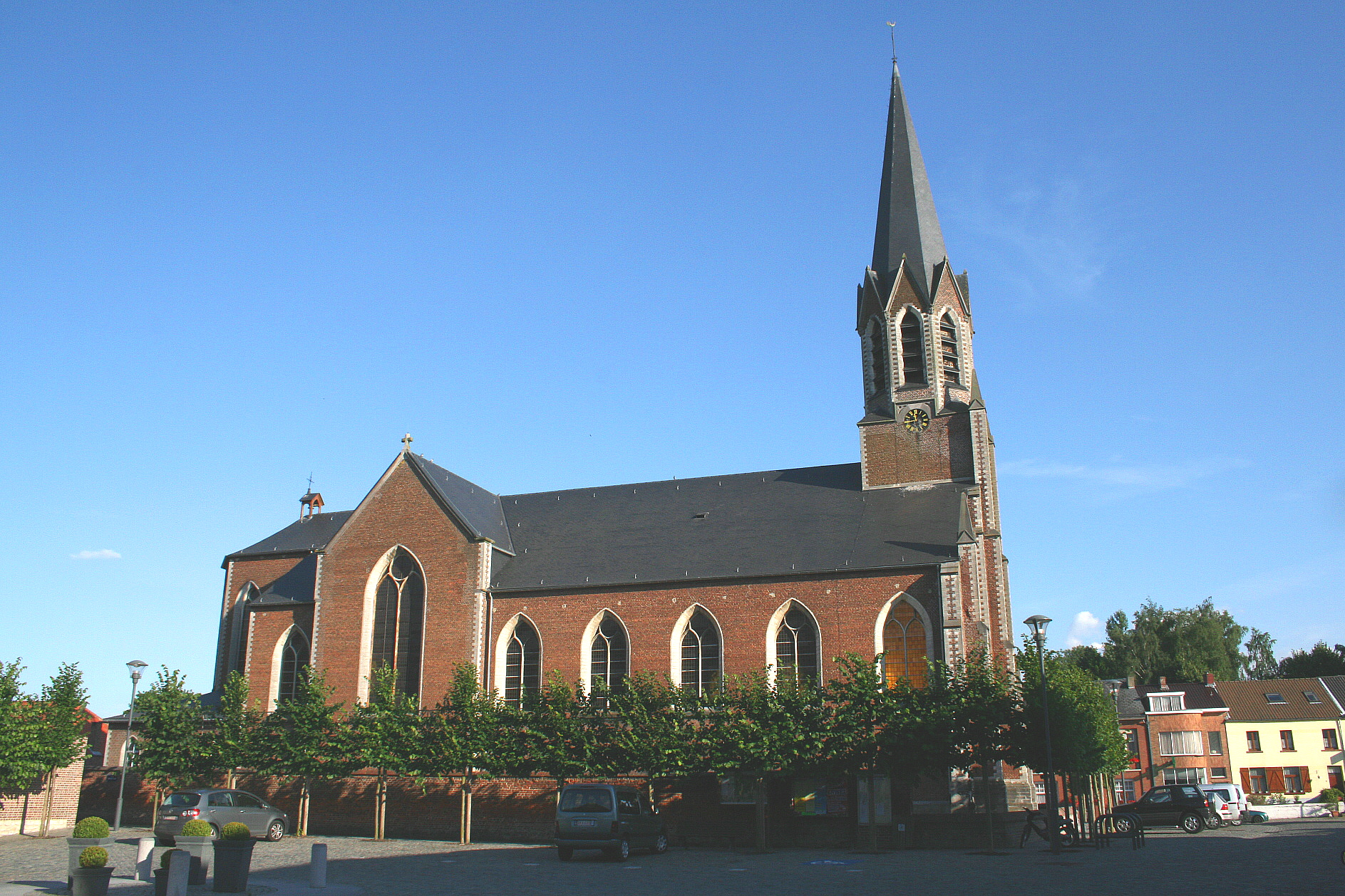 Beauvechain, the Saint Sulpice church (1853-1860). Walon: Bôvètché, l'èglîje Sint-Sulpice (1853-1860)